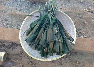 Laksa Rancakalong Sumedang